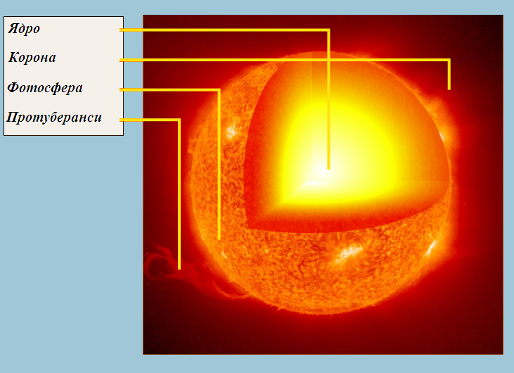 Picture of Sun layers (the text is modified in Bulgarian)